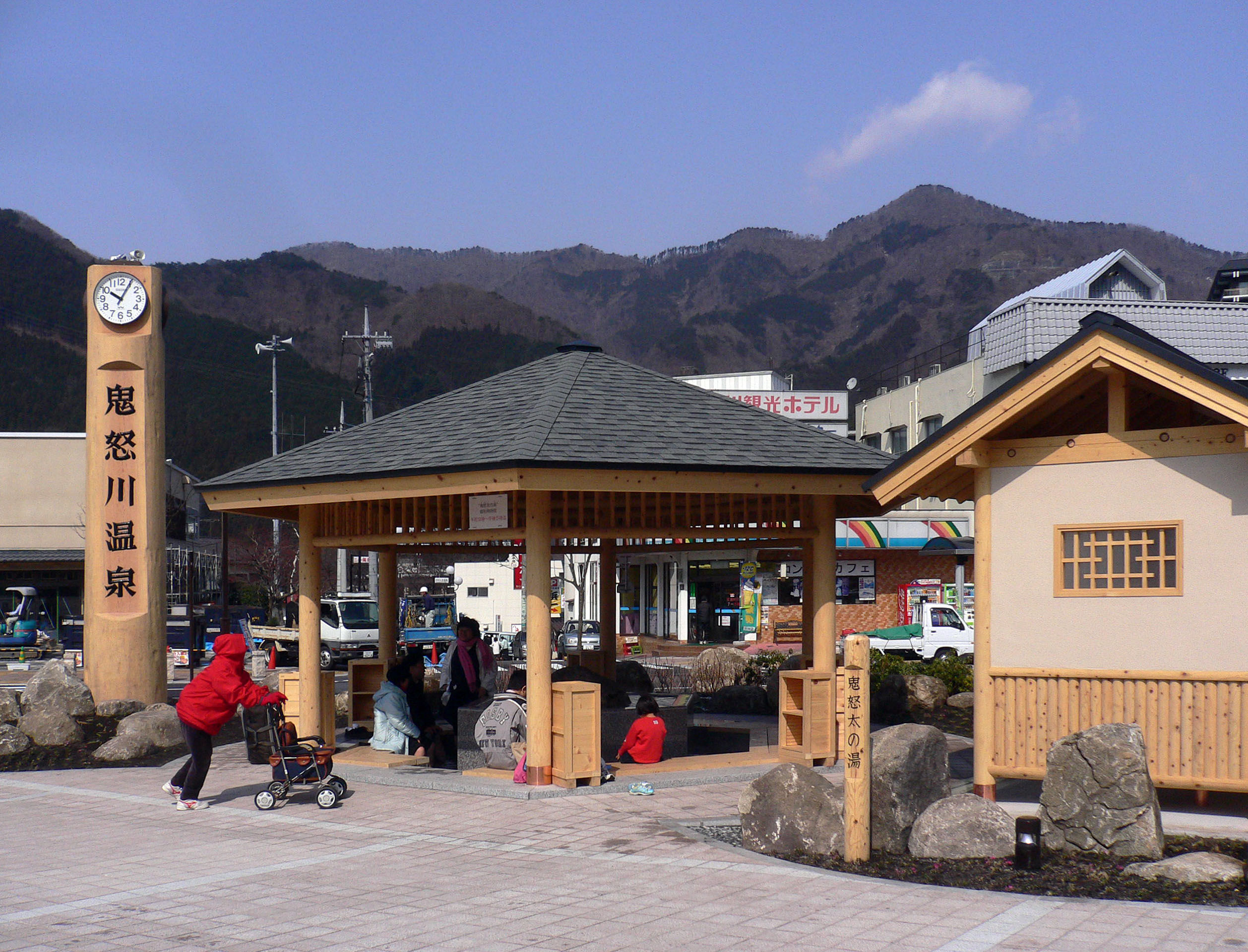 The public ashiyu footbath in front of Kinugawa-Onsen Station in Nikko, Tochigi, Japan